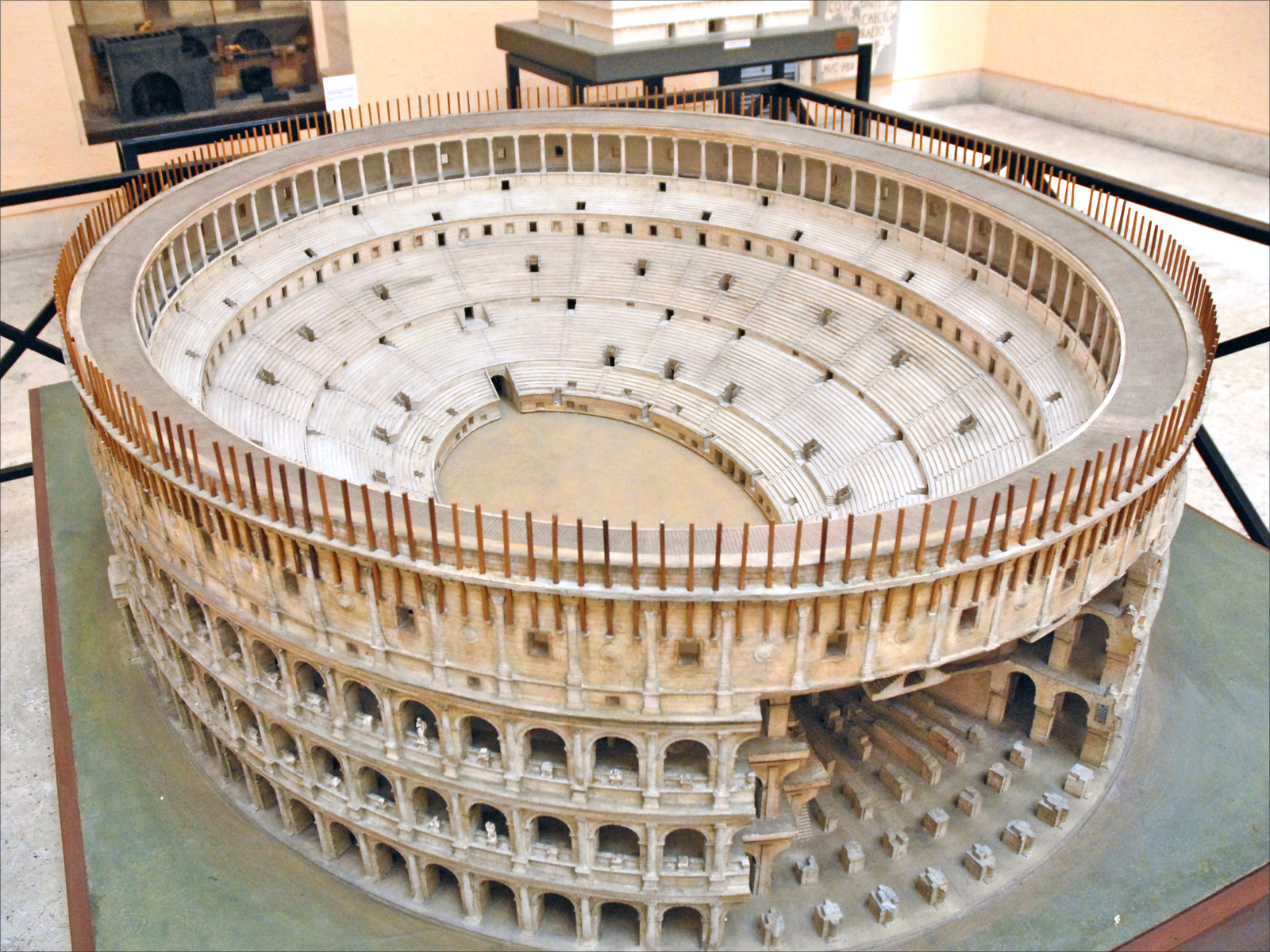 Model of the Colosseum at the Museum of Roman Civilization. It includes 240 wooden poles at the top (4 are broken).